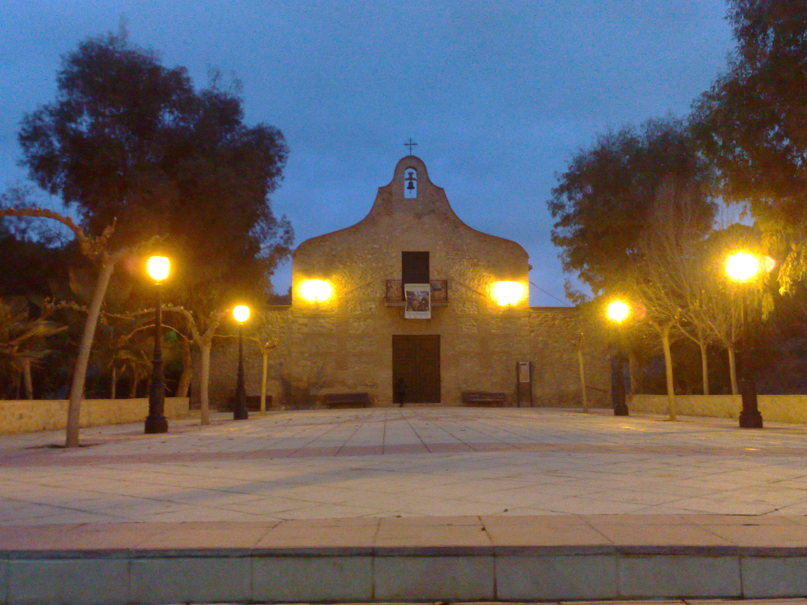 Old Pliego church